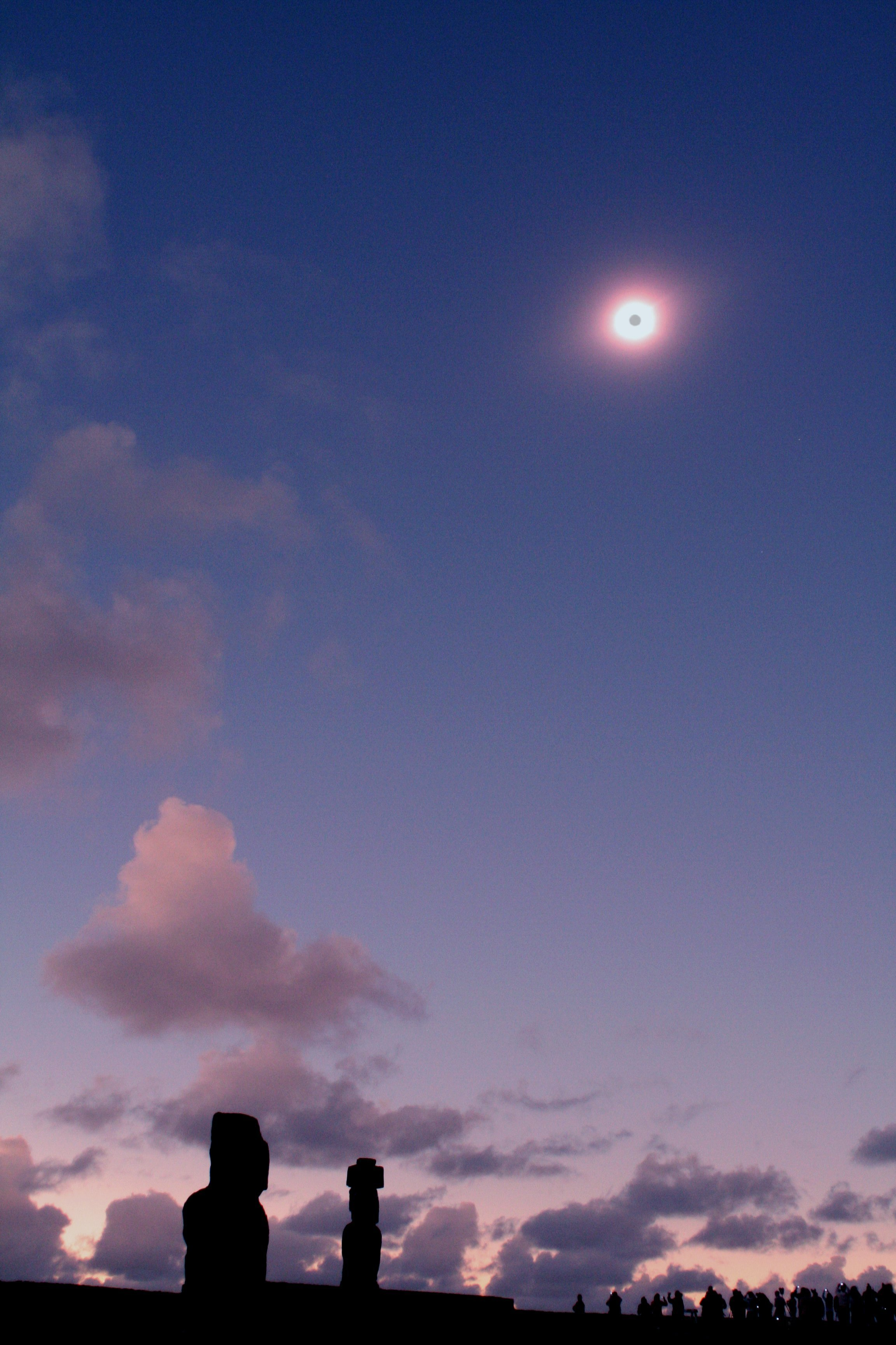 Wide field image of the solar corona during the total solar eclipse of July 11, 2010 in Easter Island. Great moais statues and many enthusiasts people are silhouetted below the black sun.